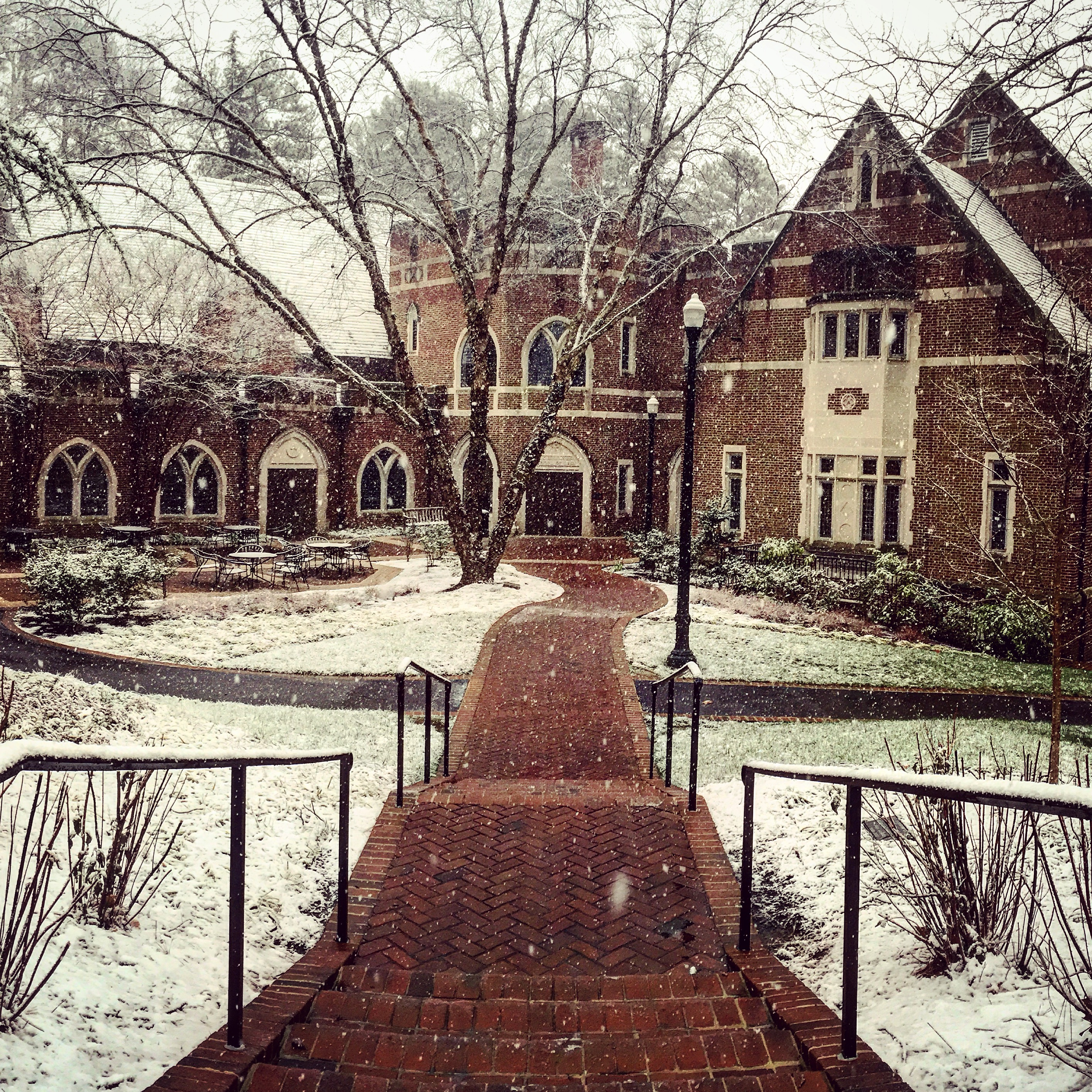 Front entrance of Richmond Law in January